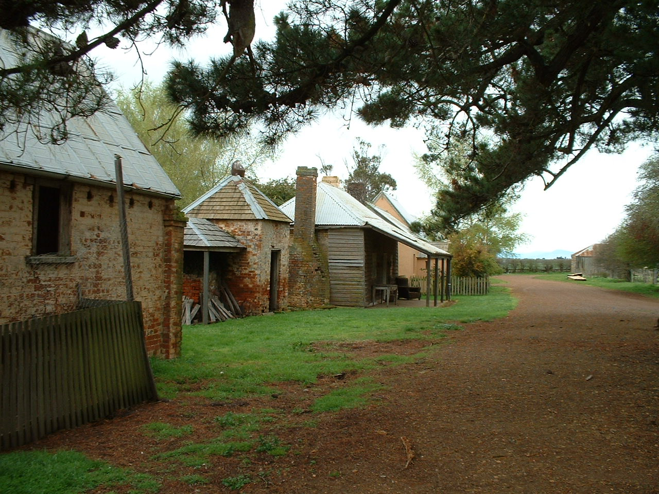 Old farm buildings at Brickendon Estate, near Longford, Tasmania. Listed as a part of the World Heritage Australian Convict Sites